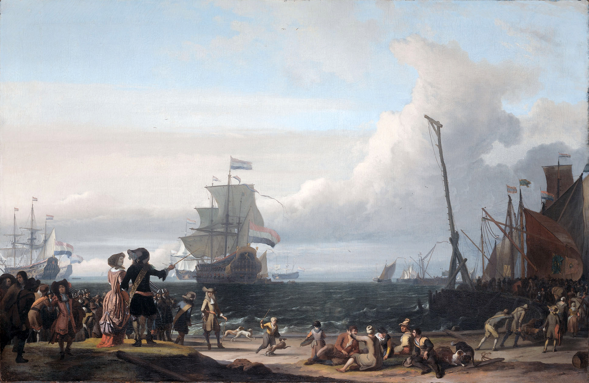 Dutch ships on the roadstead of Texel; in the middle the Gouden Leeuw, the flagship of Cornelis Tromp. On the foreground troops are being embarked.